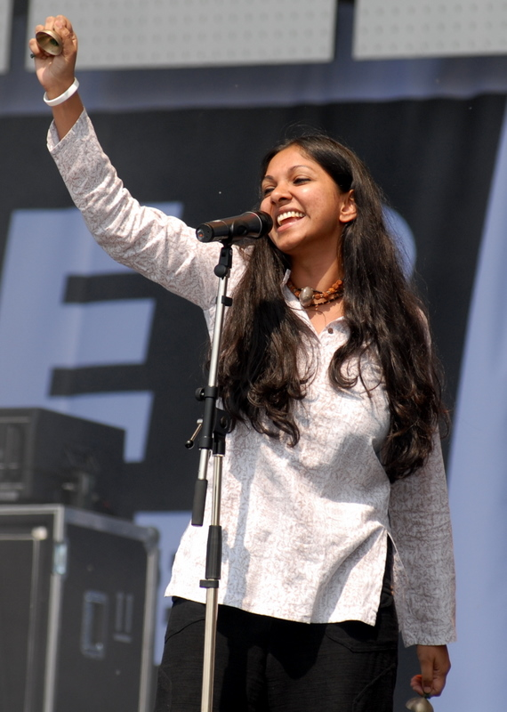 Bangla performing at the "Deine Stimme Gegen Armut" (Your Voice Against Poverty) concert in Rostock, Germany on June 7th, 2007.